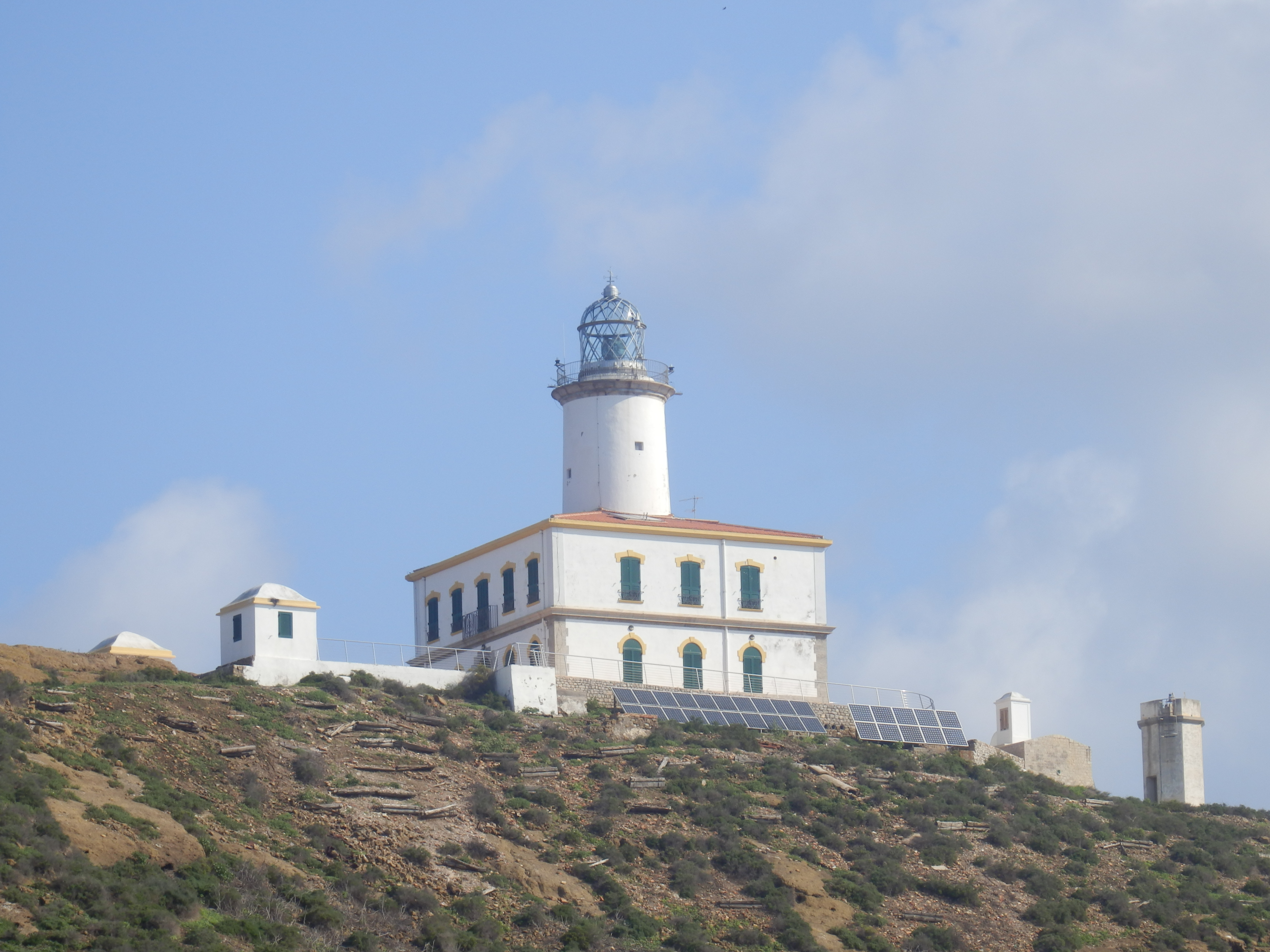 This is a photography of a Site of Community Importance in Spain with the ID: ES0000061. Natura2000 entry, EEA entry